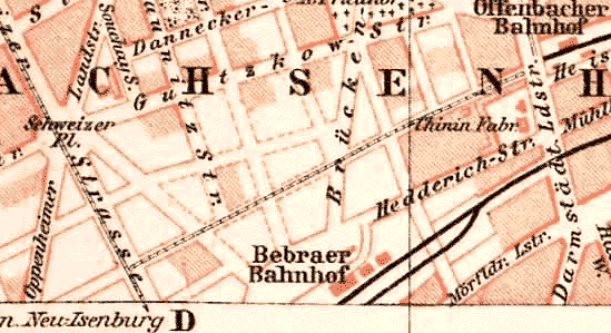 Frankfurt city map detail, 1893. The map shows Bebraer Bahnhof (todays South Station) and yet undeveloped blocks in Sachsenhausen.